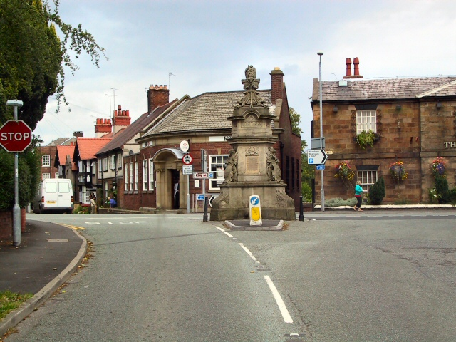 Hawarden, Penarlag As one arrives in Hawarden along the A550 from Dobshill, one is confronted by this imposing monument and former fountain in the middle of the intersection with the B5125